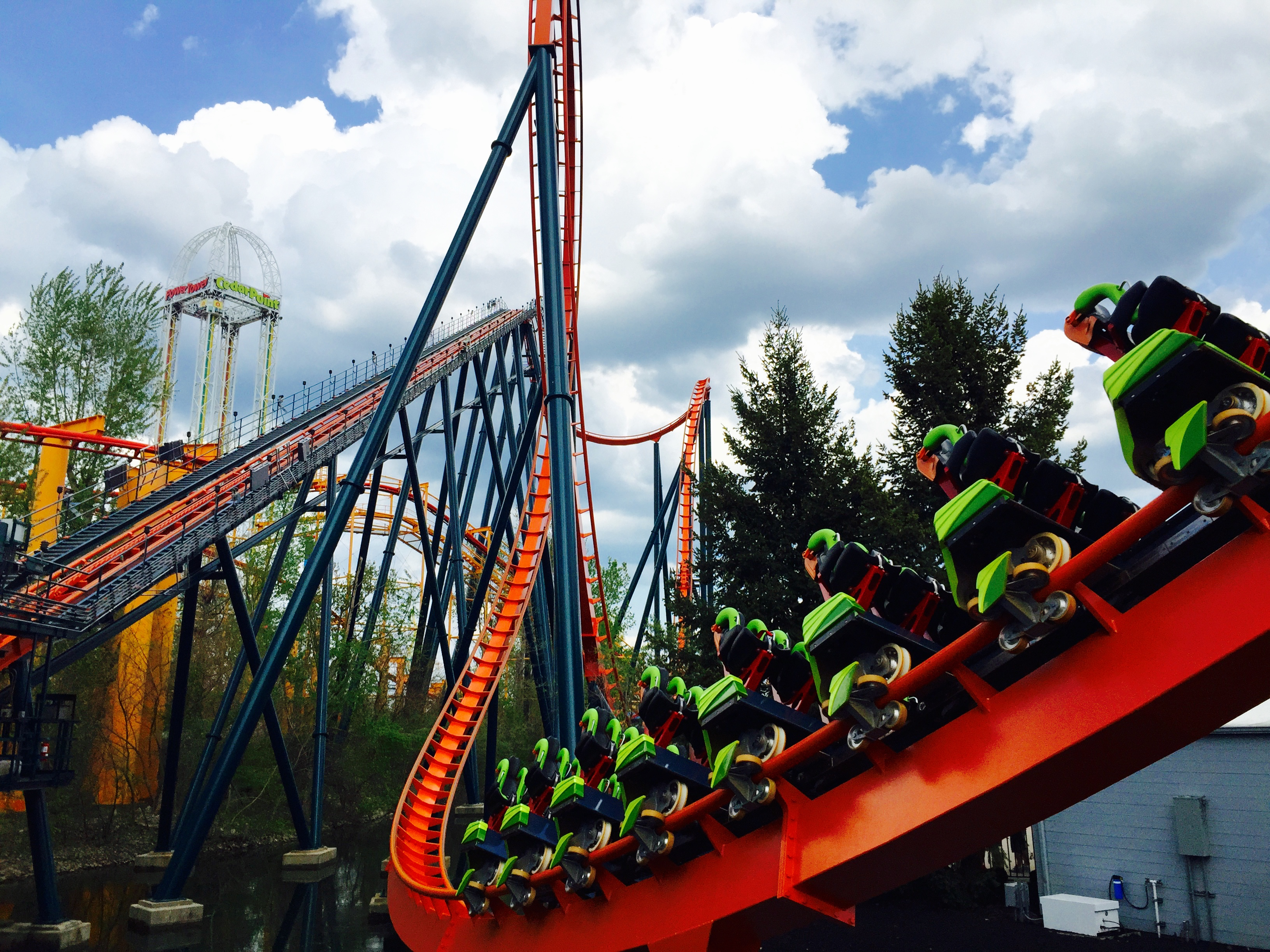 Cars coming out of loop track of Rougarou (roller coaster) at Cedar Point in Sandusky, Ohio.